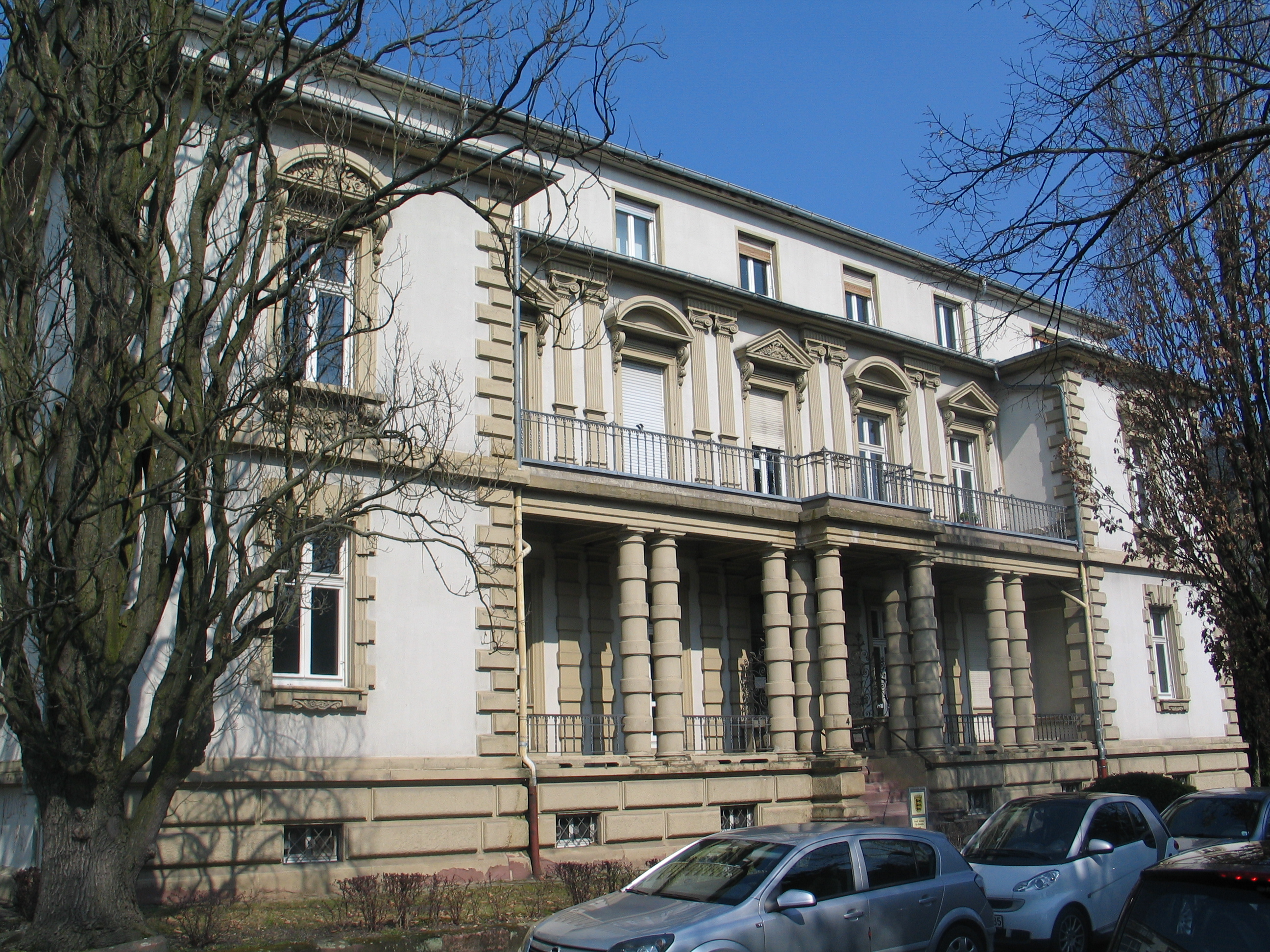 Official seminar for didactics and teacher-training Karlsruhe